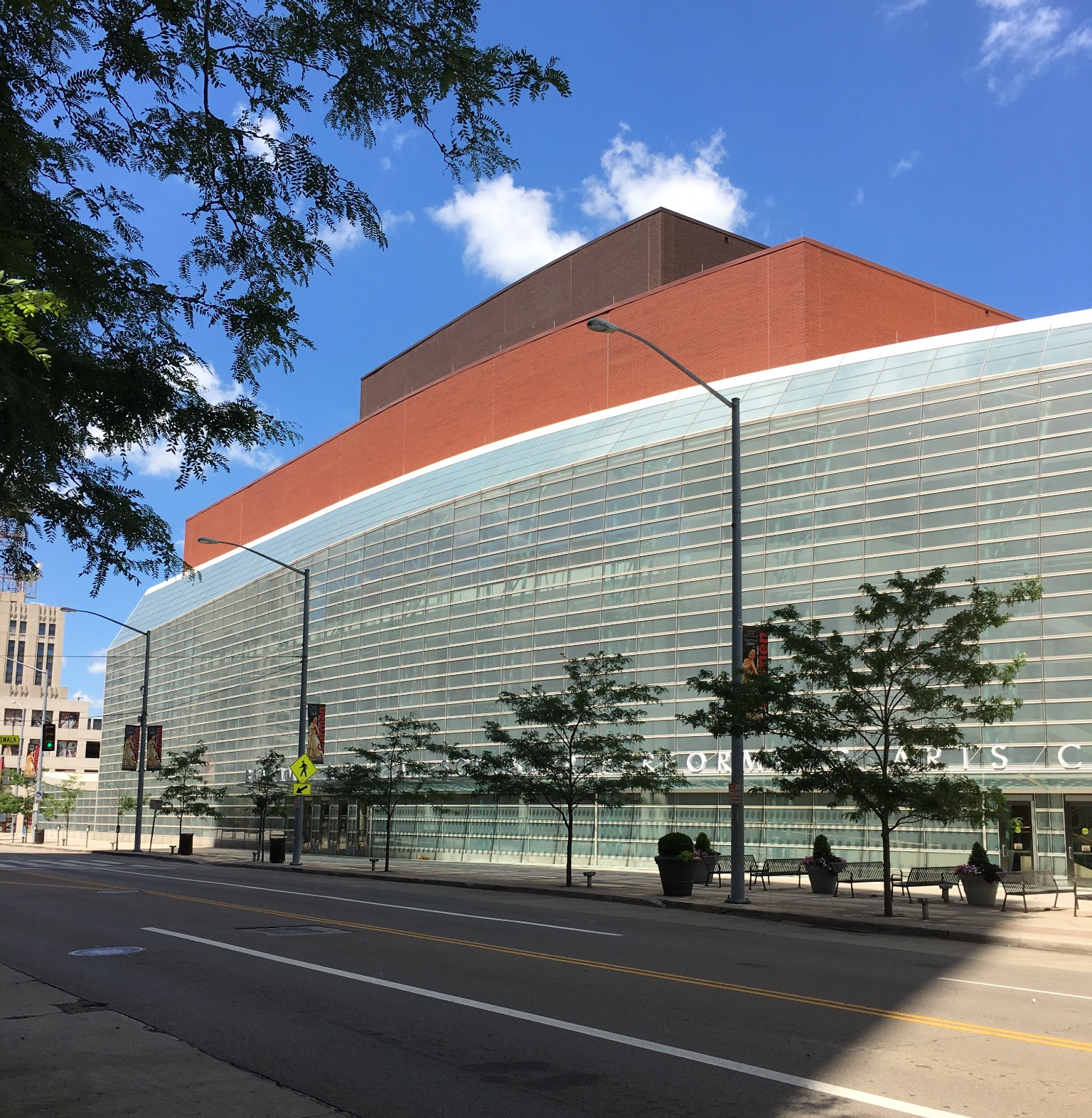 Photo of the Schuster performing arts Center in 2017